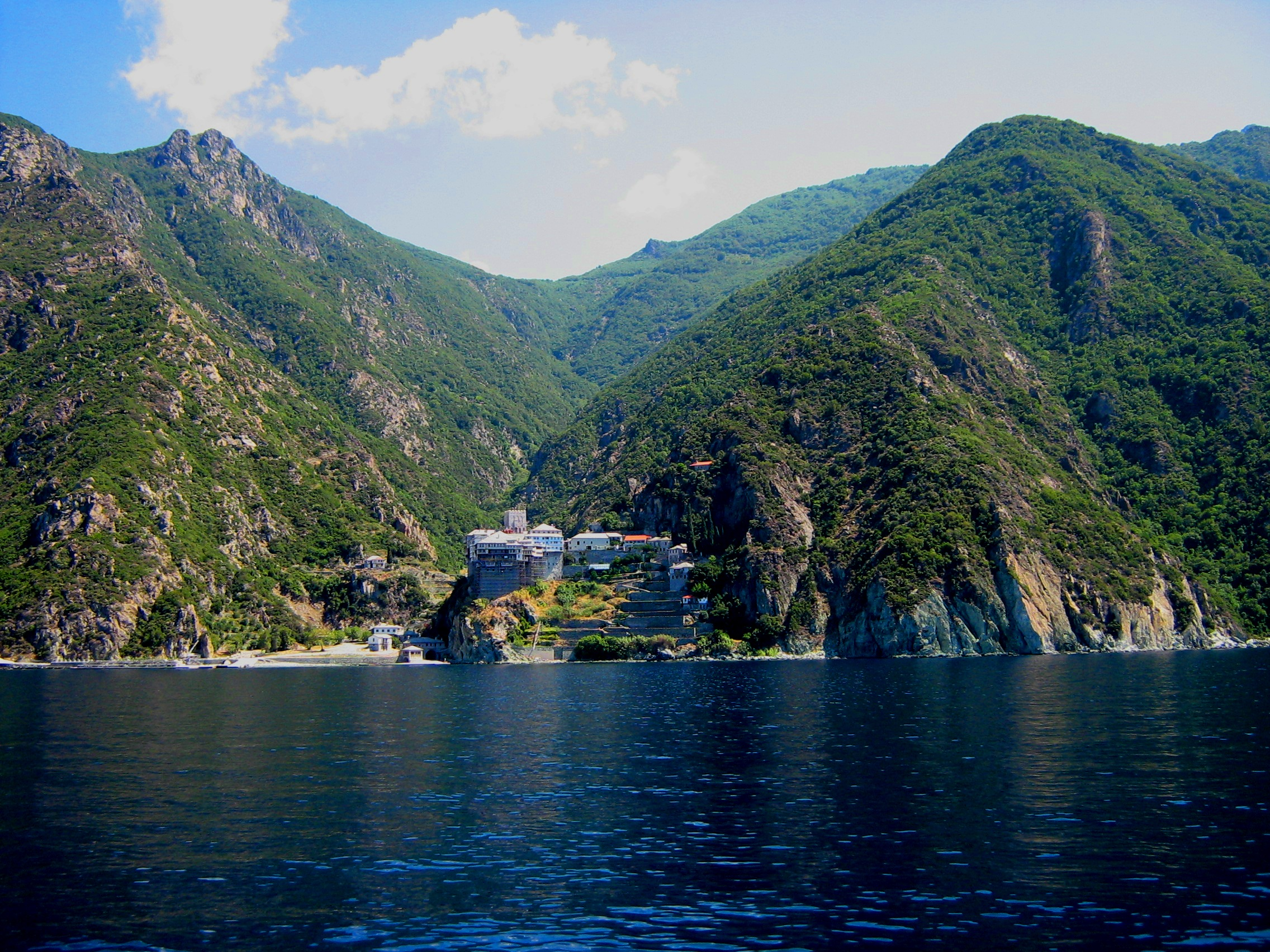 Mount Athos, Dionysiou monastery